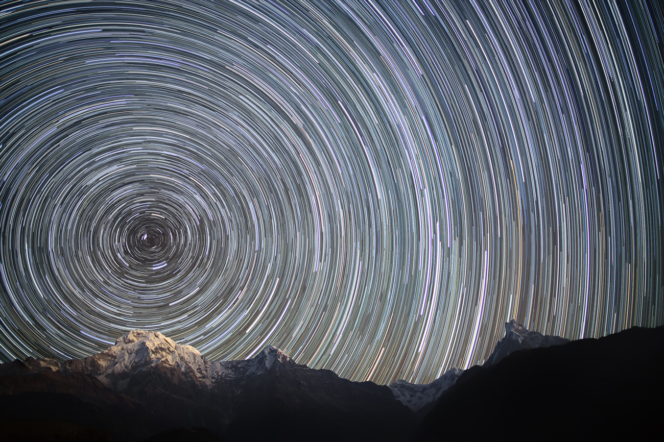 Earth's rotation is the rotation of the planet Earth around its own axis. The Earth rotates from the west towards east. As viewed from North Star or polestar Polaris, the Earth turns counter-clockwise.